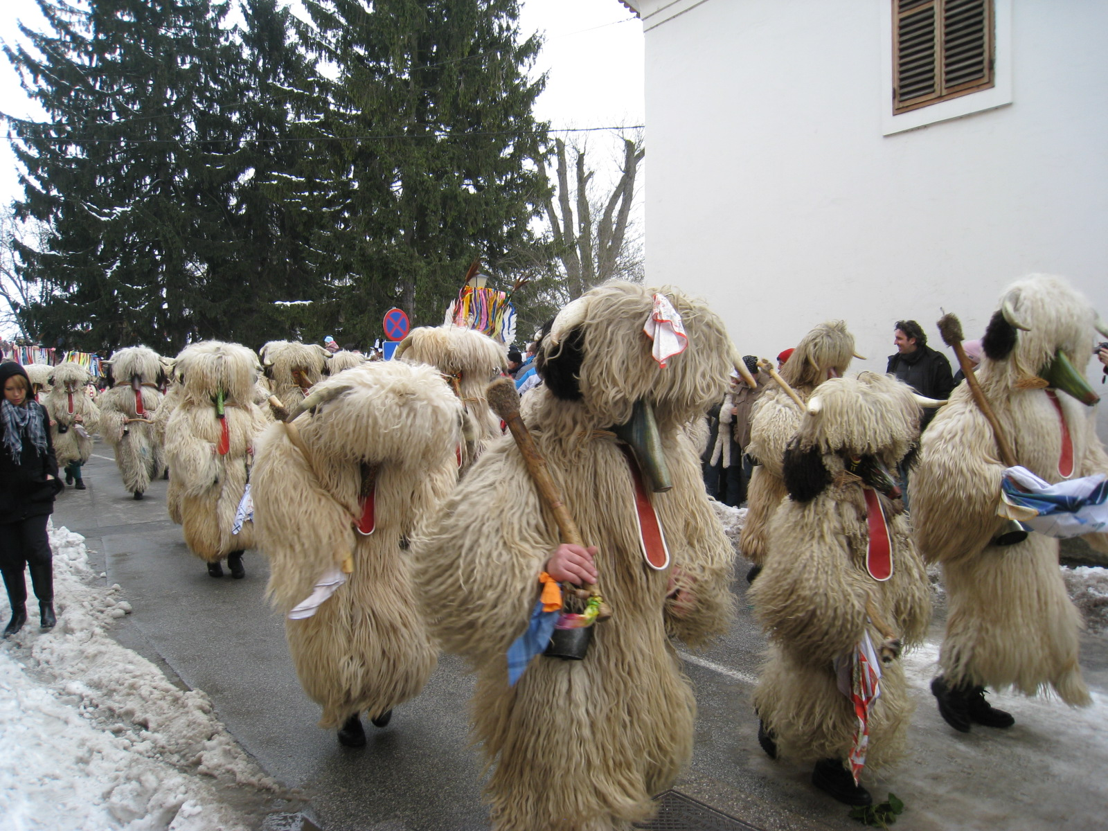 Front shot of Kurenti at Kurentovanje in Ptuj, Slovenia. Izgled Kurentov na Putju.